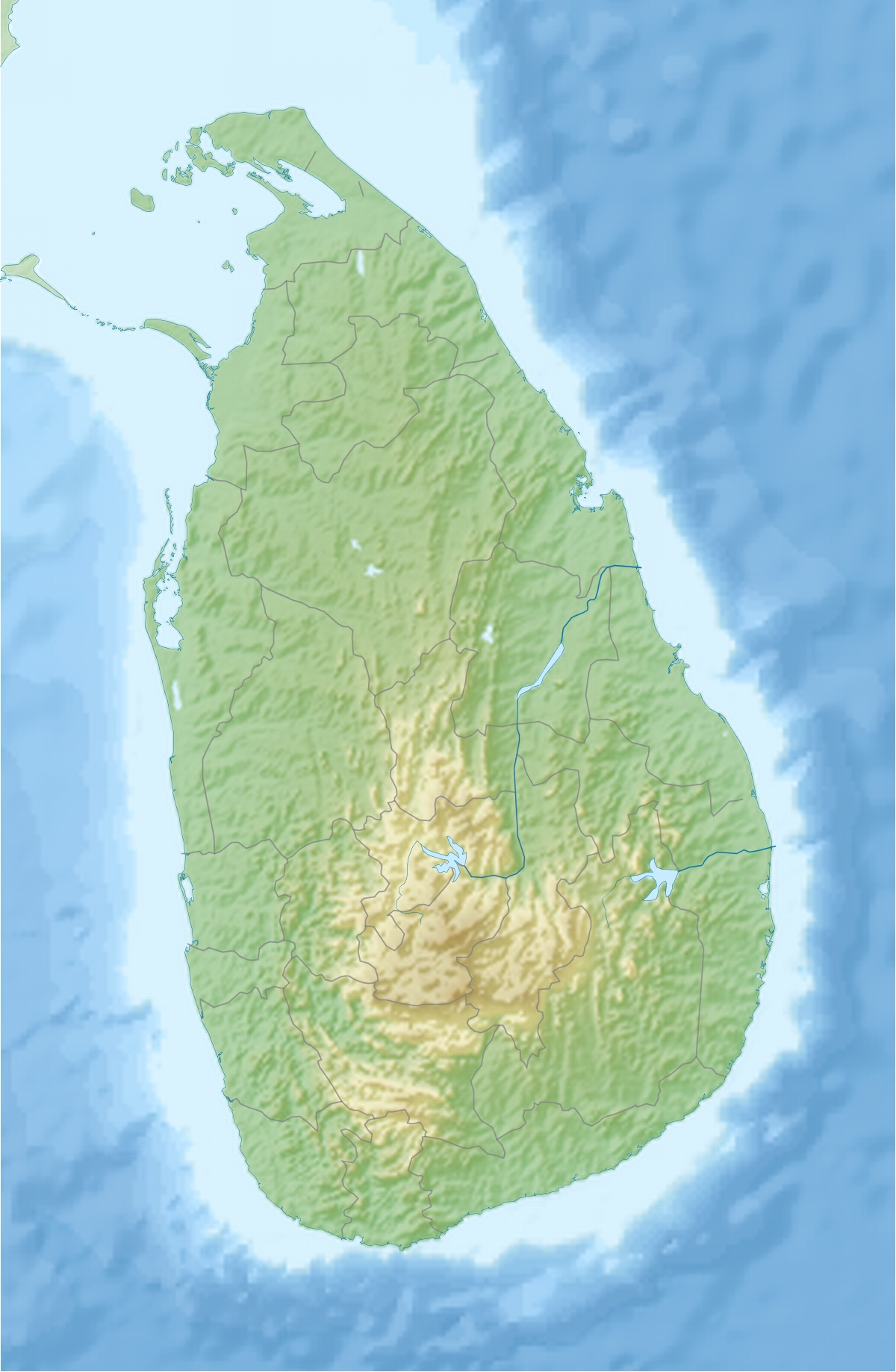 Location map of Sri Lanka. Equirectangular projection. Strechted by 101.0%. Geographic limits of the map: * N: 10.2° N * S: 5.5° N * W: 79.2° E * E: 82.3° E Made with Natural Earth. Free vector and raster map data @ .